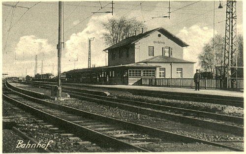 Bahnhof Olching, Old Postcard, approx 1920